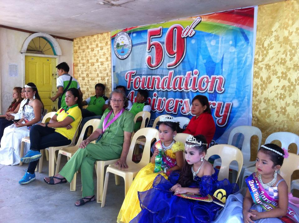 Ma'am Salarda (wearing a green formal suit) with Munting Mutya ng Poblacion Candidates, DEPED officials, and LGU Employees.